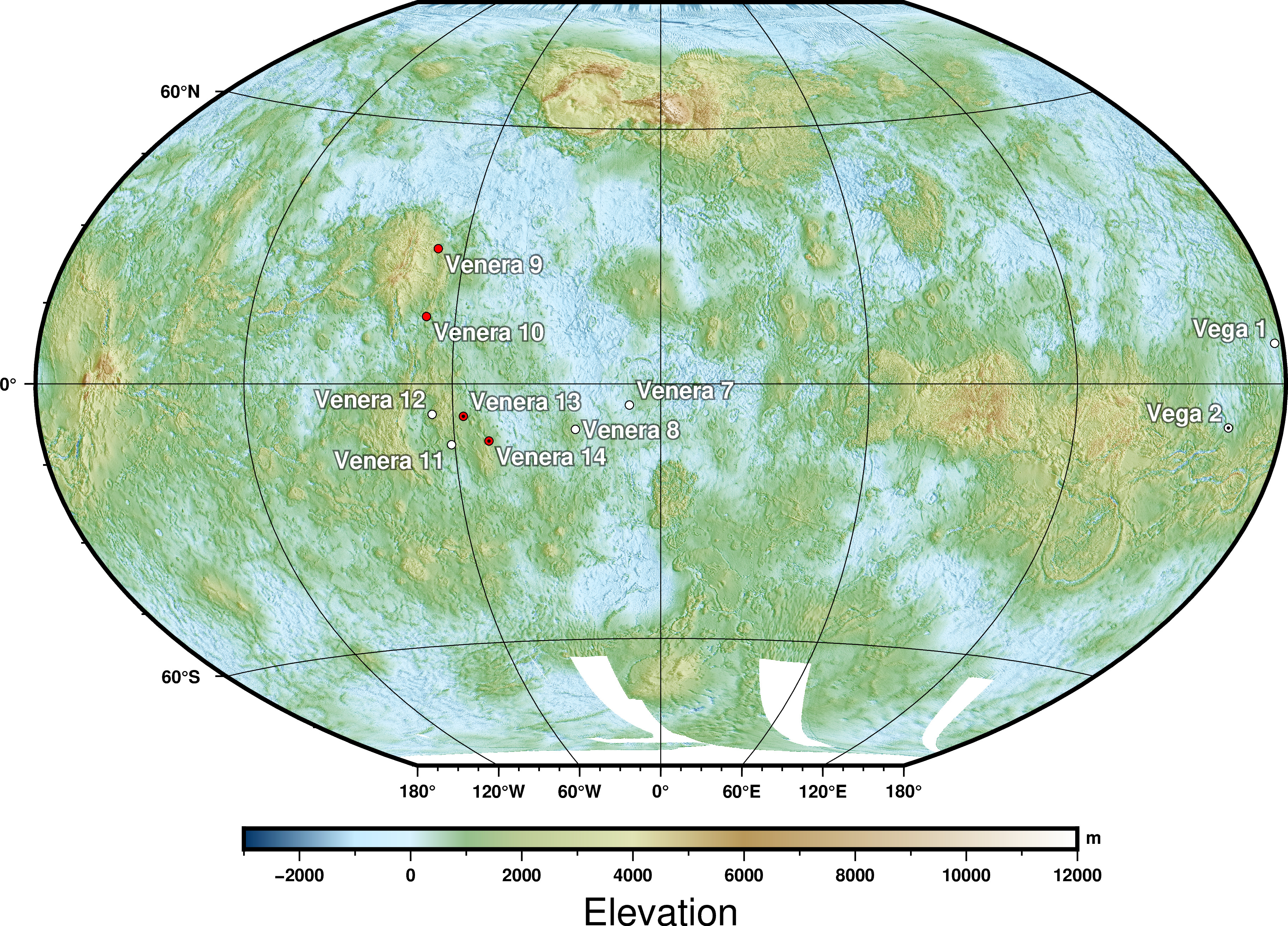 Position of Venera landing sites superimposed on combined Magellan/Pioneer/Venera topography data in Winkel Tripel projection using Grass GIS and GMT 4.5.6